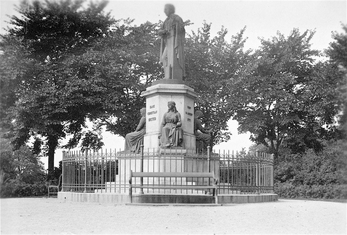 The H. C. Ørsted Monument in Ørstedsparken in Copenhagen, Denmark